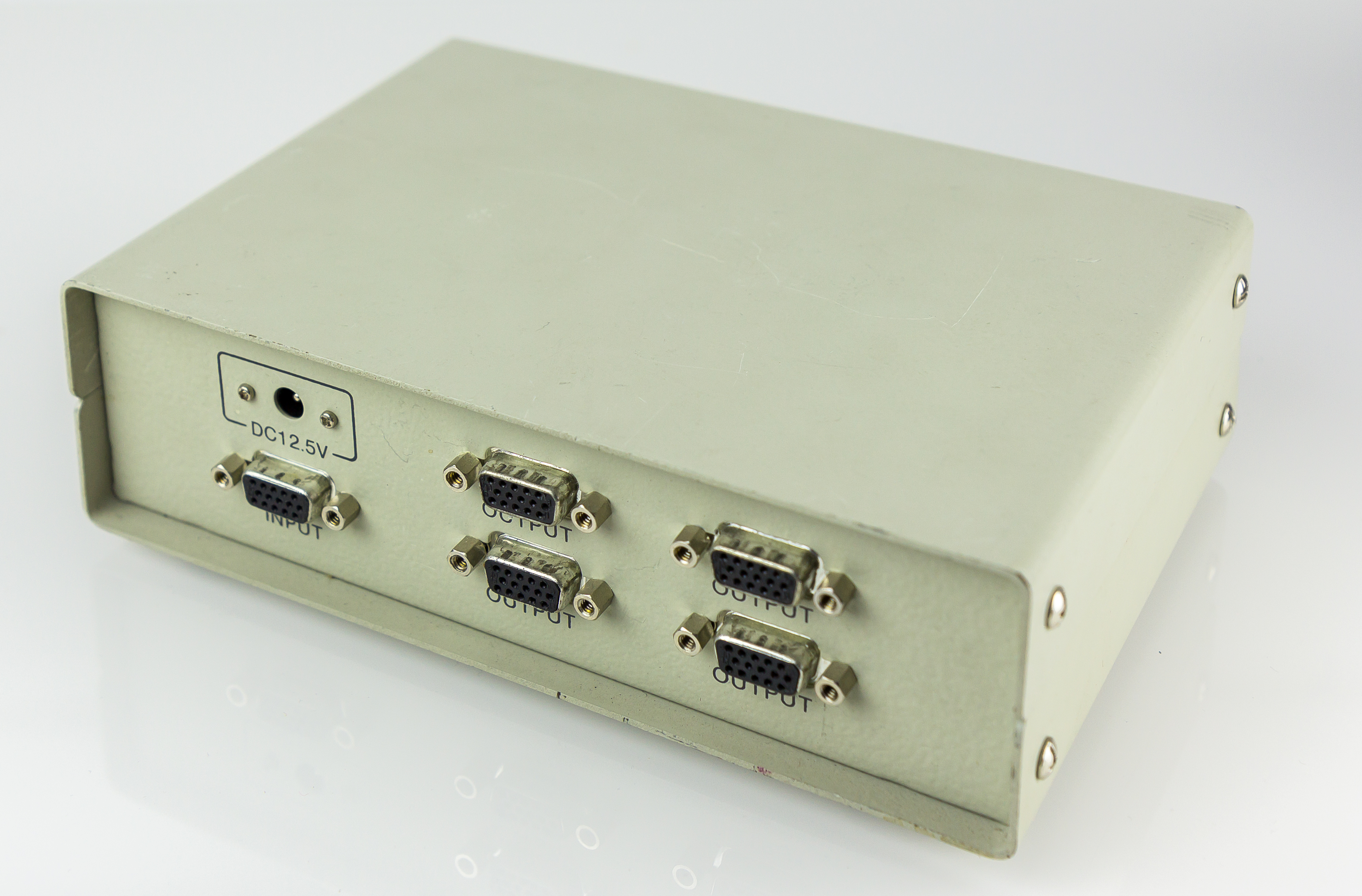 Analog Monitor Splitter, manufacturer unknown